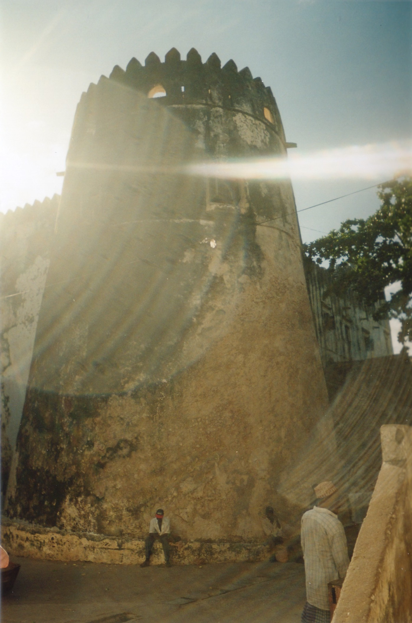 Lamu Fort, photo by Kevin Borland, July, 2001.